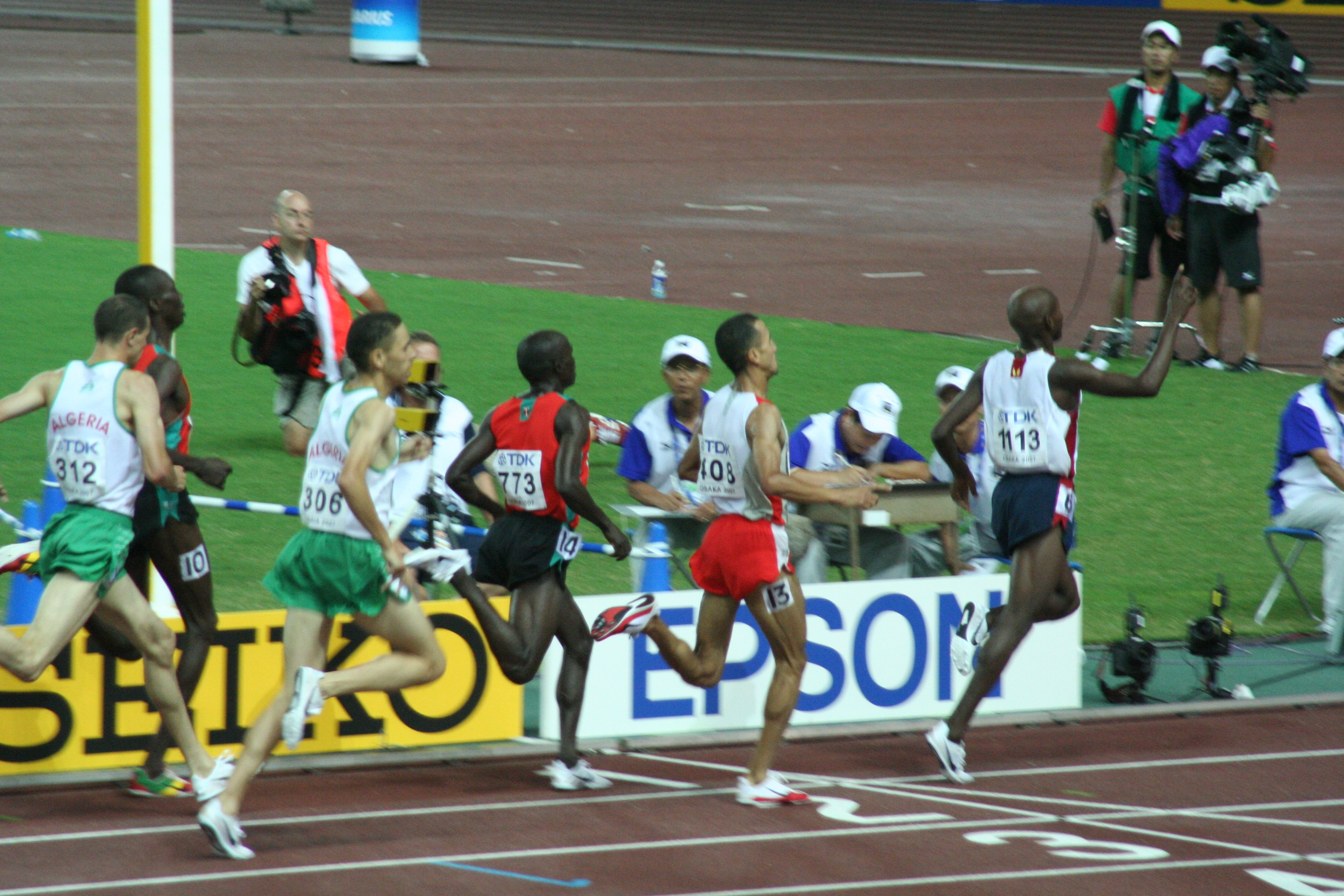 World Athletics Championships 2007 in Osaka - at the finishing line of the men's 1500 metres final: Antar Zerguelaine, Asbel Kiprop, Tarek Boukensa, Shedrack Kibet Korir, Rashid Ramzi, Bernard Lagat